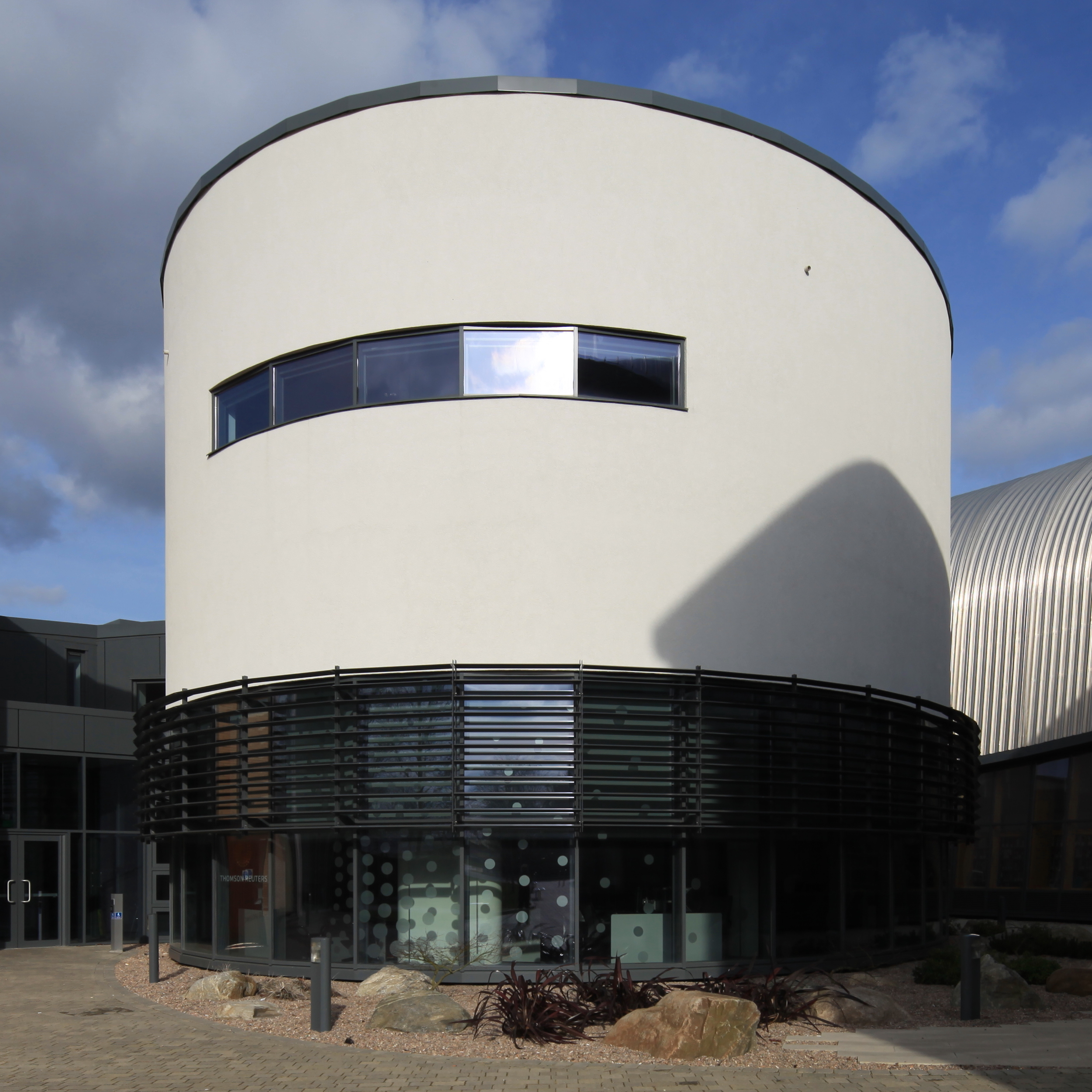 Thomson Reuters Trading Room